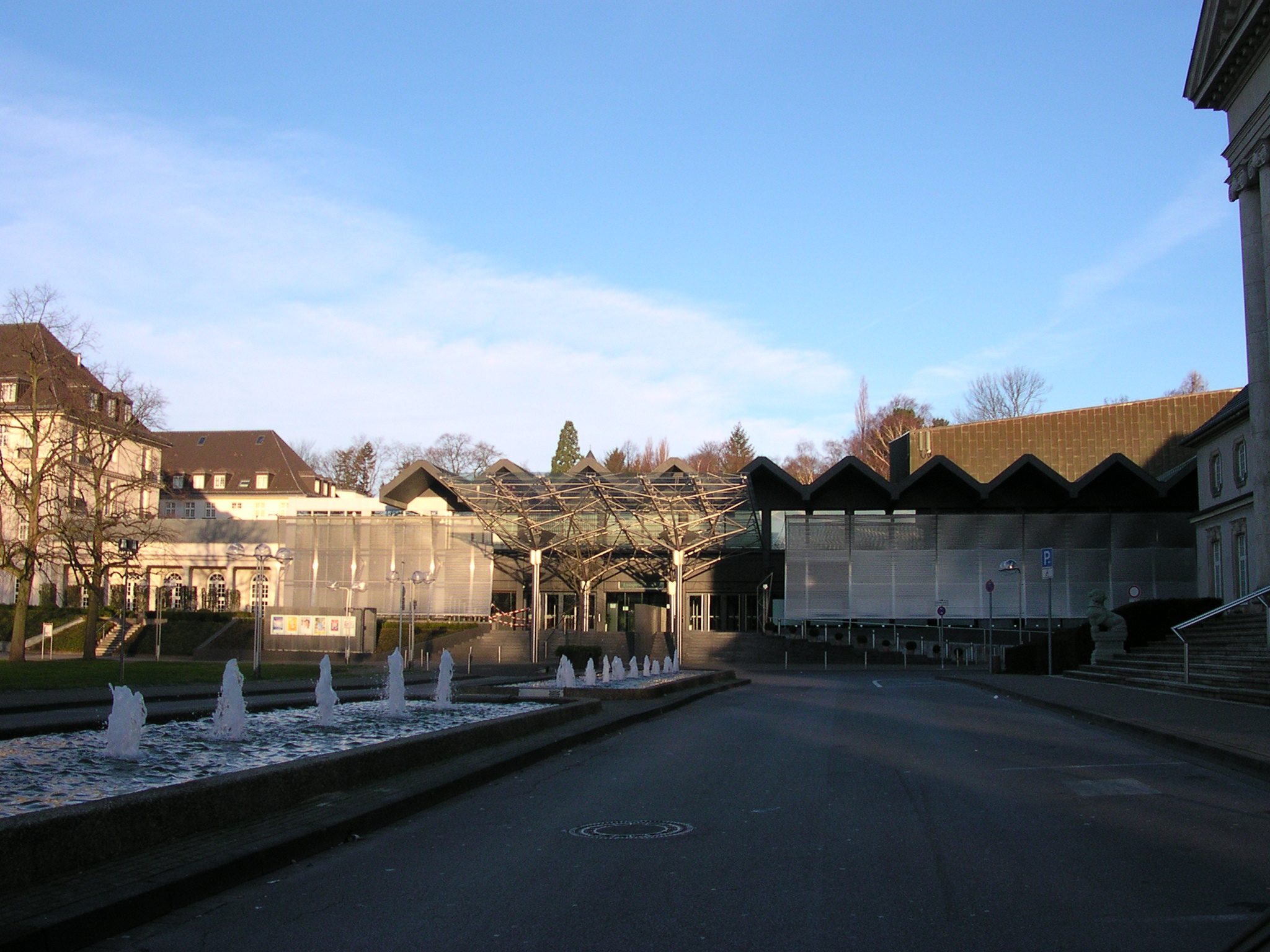 Eurogress Aachen, main entrance